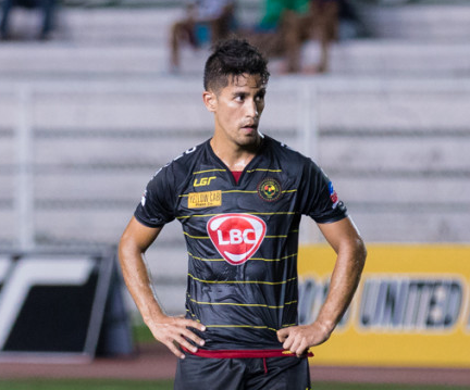 Tanton_Miguel_Kaya'16